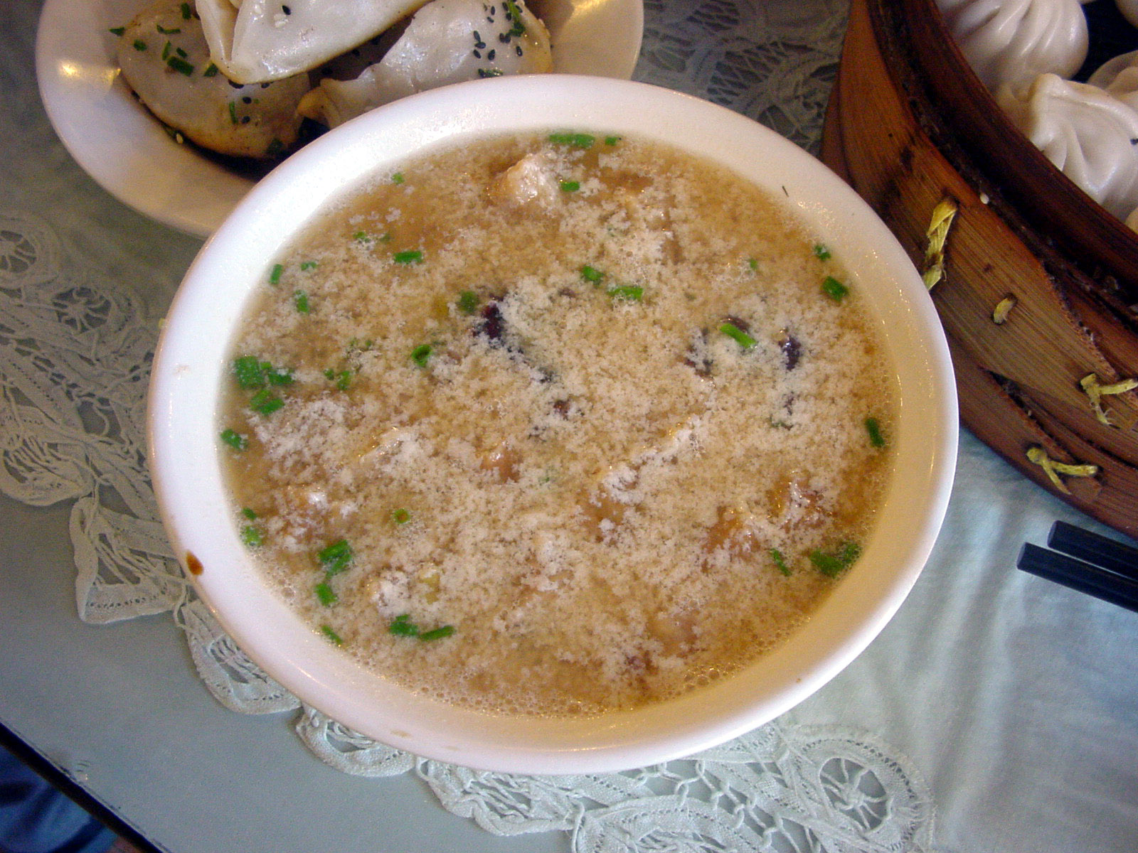 A bowl of soy milk soup